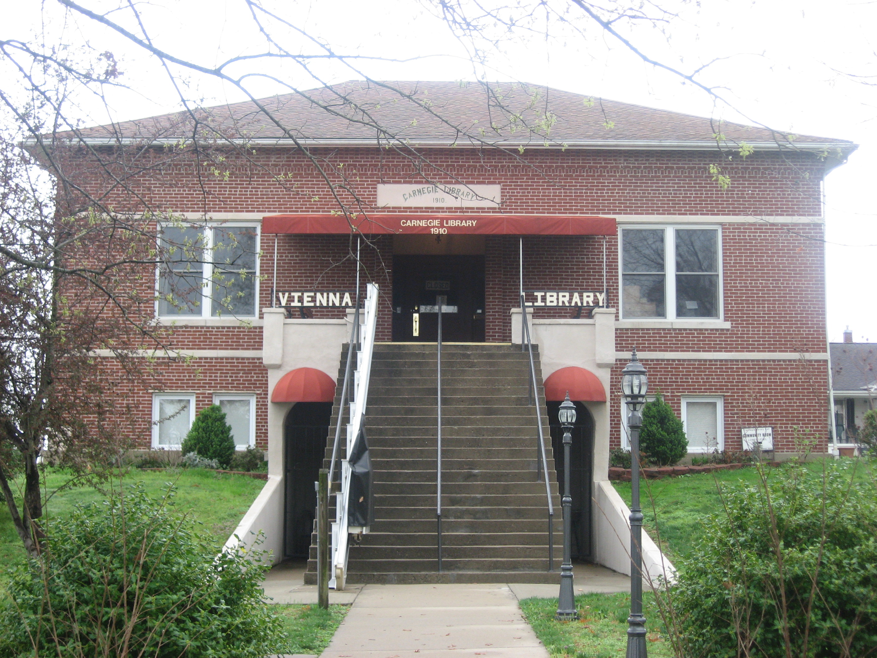 Front of the Vienna Public Library, located at 401 Poplar Street on Courthouse Square in Vienna, Illinois, United States. Built in 1911, it is listed on the National Register of Historic Places.